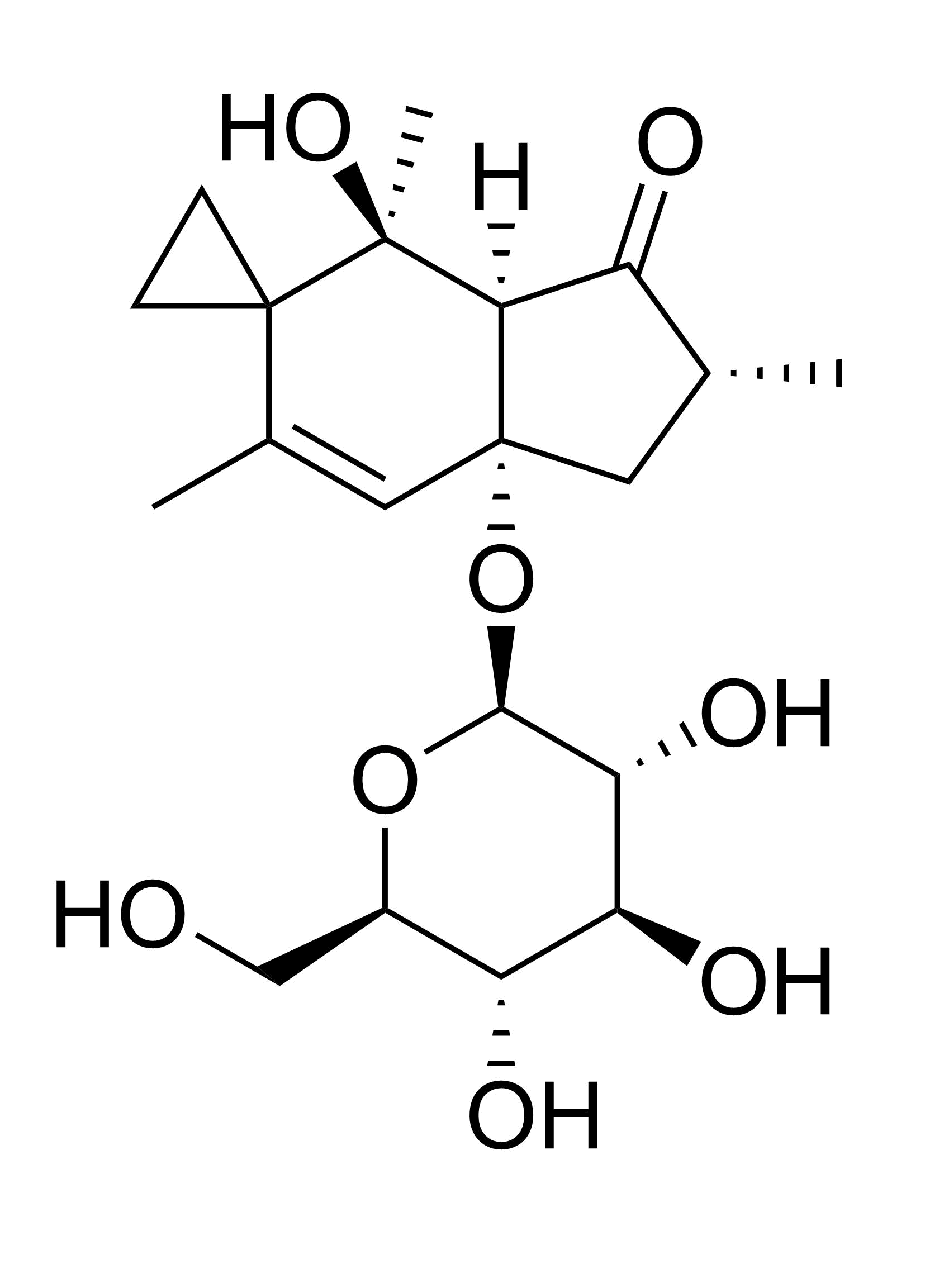 Selfmade using ChemDraw.